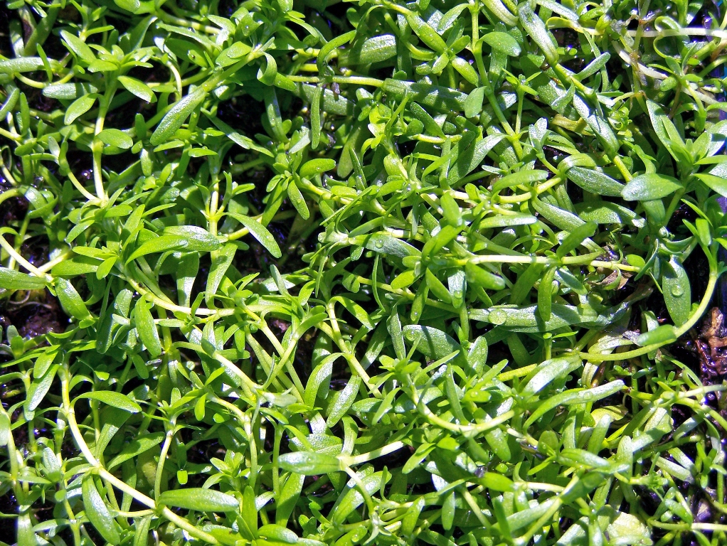 Spiny water starwort.